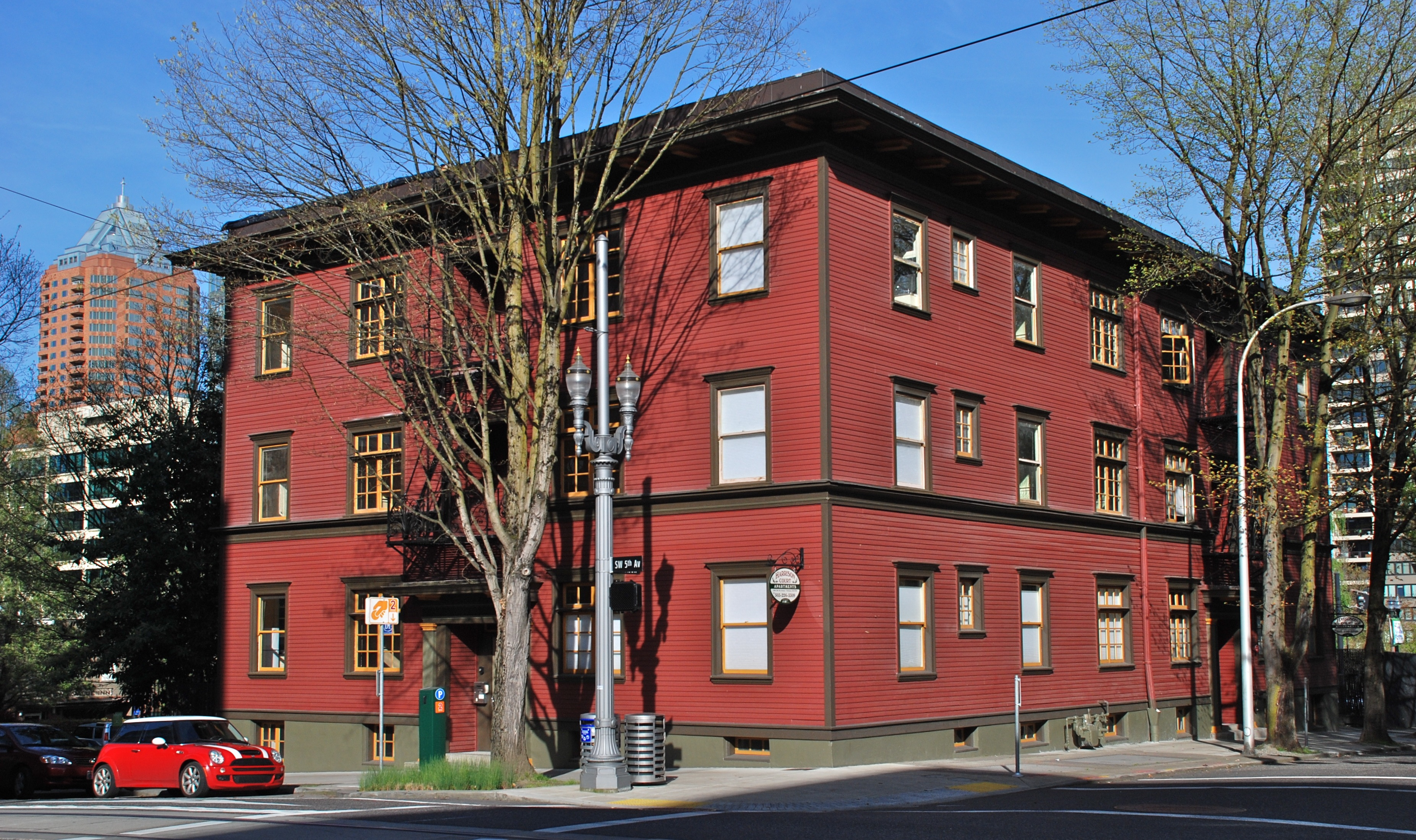 The historic Harrison Court Apartments (built 1905), at 1834 S.W. 5th Avenue, in Portland, Oregon, United States, is a building listed on the U.S. National Register of Historic Places (NRHP).